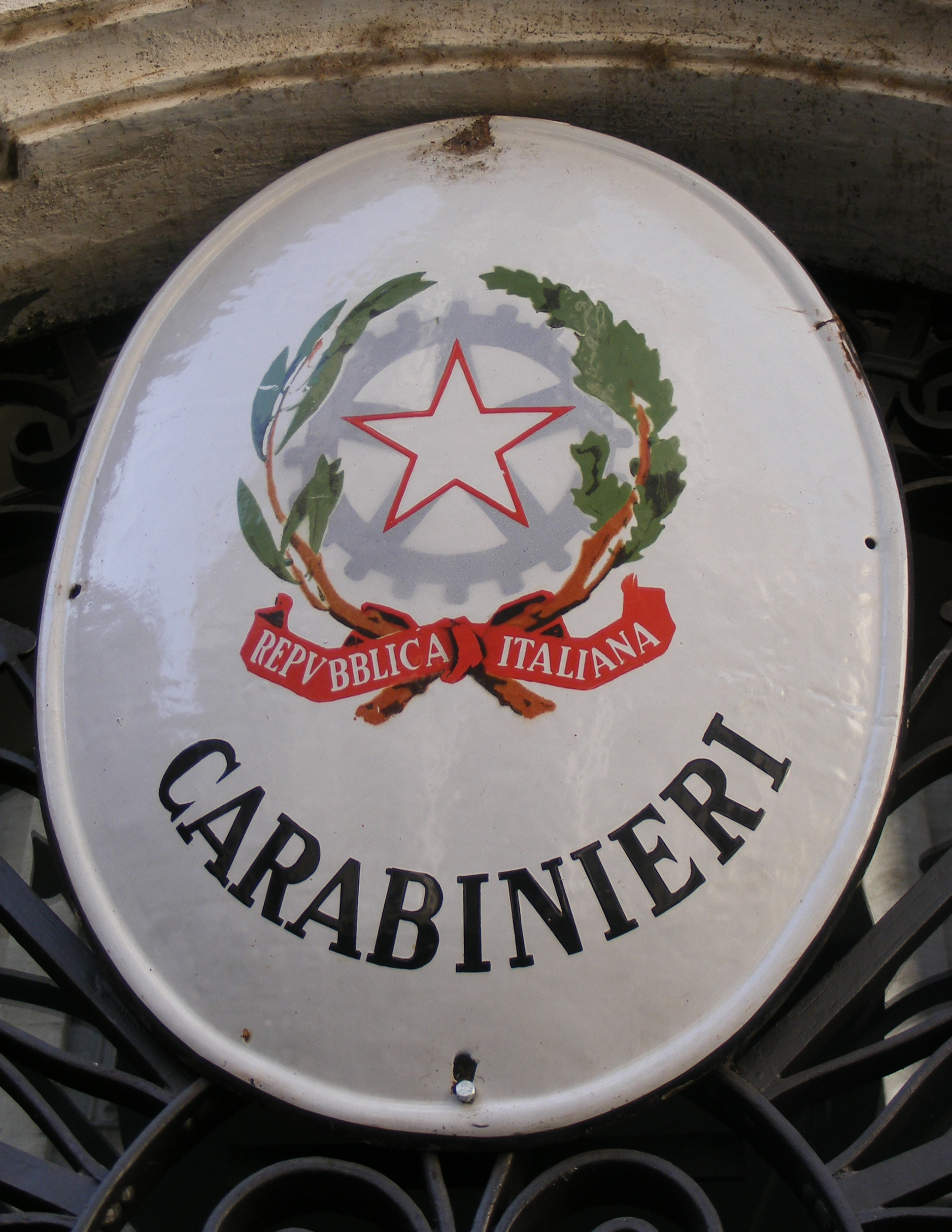 "Arma dei Carabinieri" (Italian military police) sign.